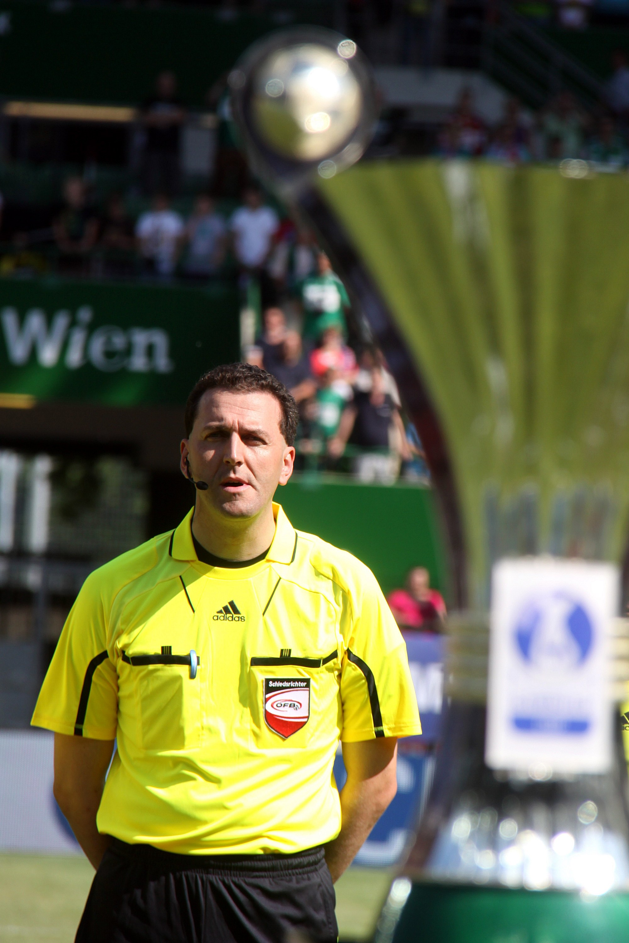 Final of the 2011–12 Austrian Cup FC Red Bull Salzburg vs. SV Ried at 2012-05-20 in the Ernst-Happel-Stadion, Vienna 3:0 (2:0). – The photo shows Thomas Einwaller in his last match as referee. Object location48° 12′ 25.8″ N, 16° 25′ 15.42″ E